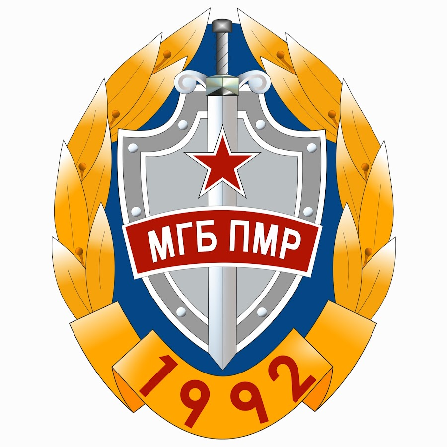 Emblem of the Ministry of state security of the self-proclaimed Pridnestrovian Moldavian Republic